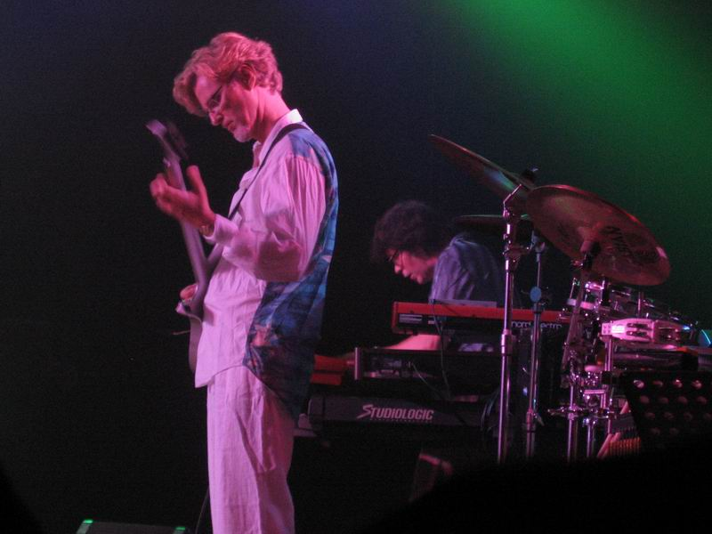 The Flower Kings in 2004. Front: Roine Stolt, back: Tomas Bodin.